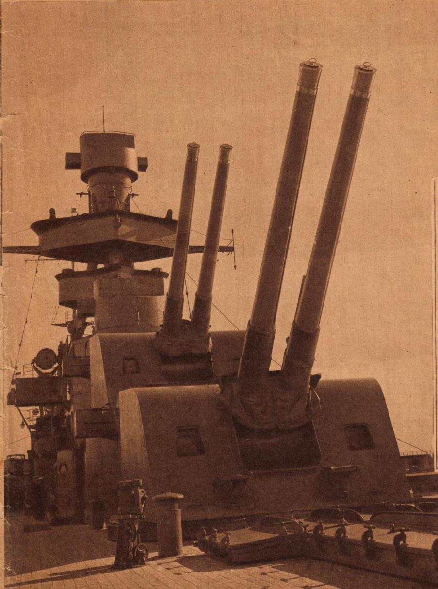 ARA Almirante Brown (C-1) guns